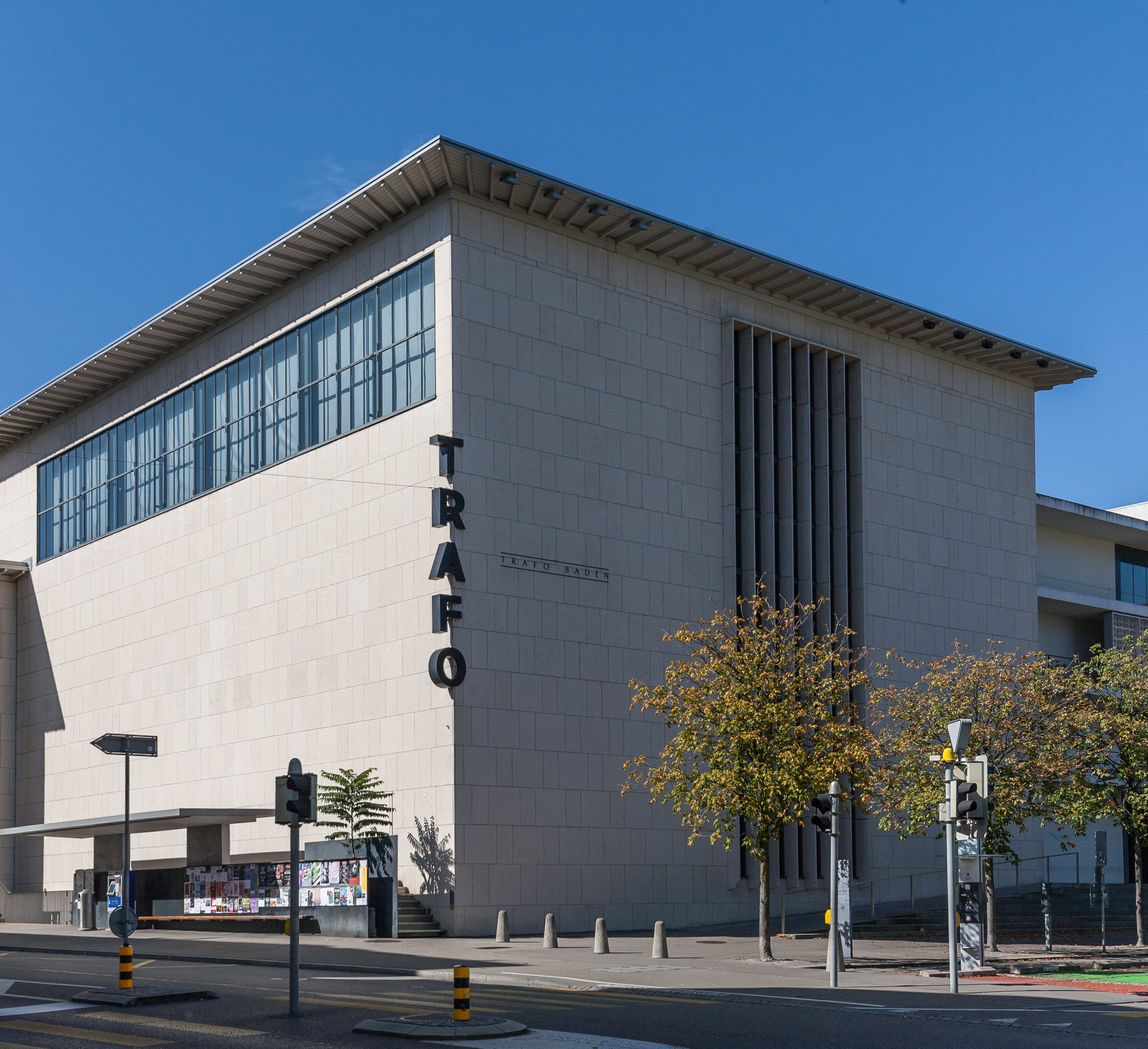 The Trafo, former High Voltage Lab (ABB / BBC), Baden, Canton of Aargau, Switzerland